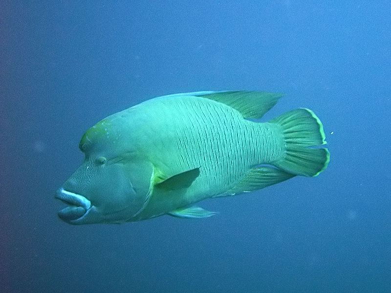 Napoleon wrasse, Yolanda Reef, Ras Muhammad, Egypt